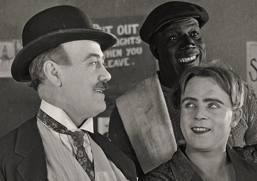 L. to R. : Tom O'Brien, Zack Williams & Bobby Vernon in Pardon My Glove - publicity still (original image damaged, modified and cropped)